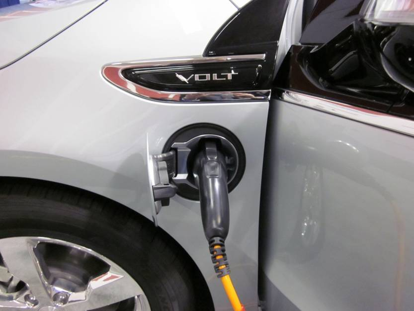 Pluged-in Chevrolet Volt.